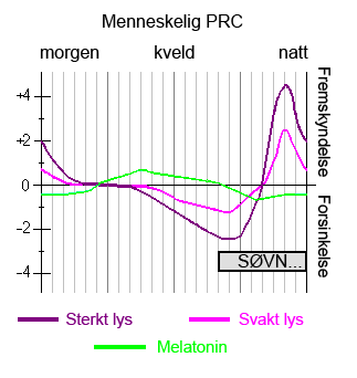 Norwegian (bokmål) version of Image:PRC-Light+Mel.png